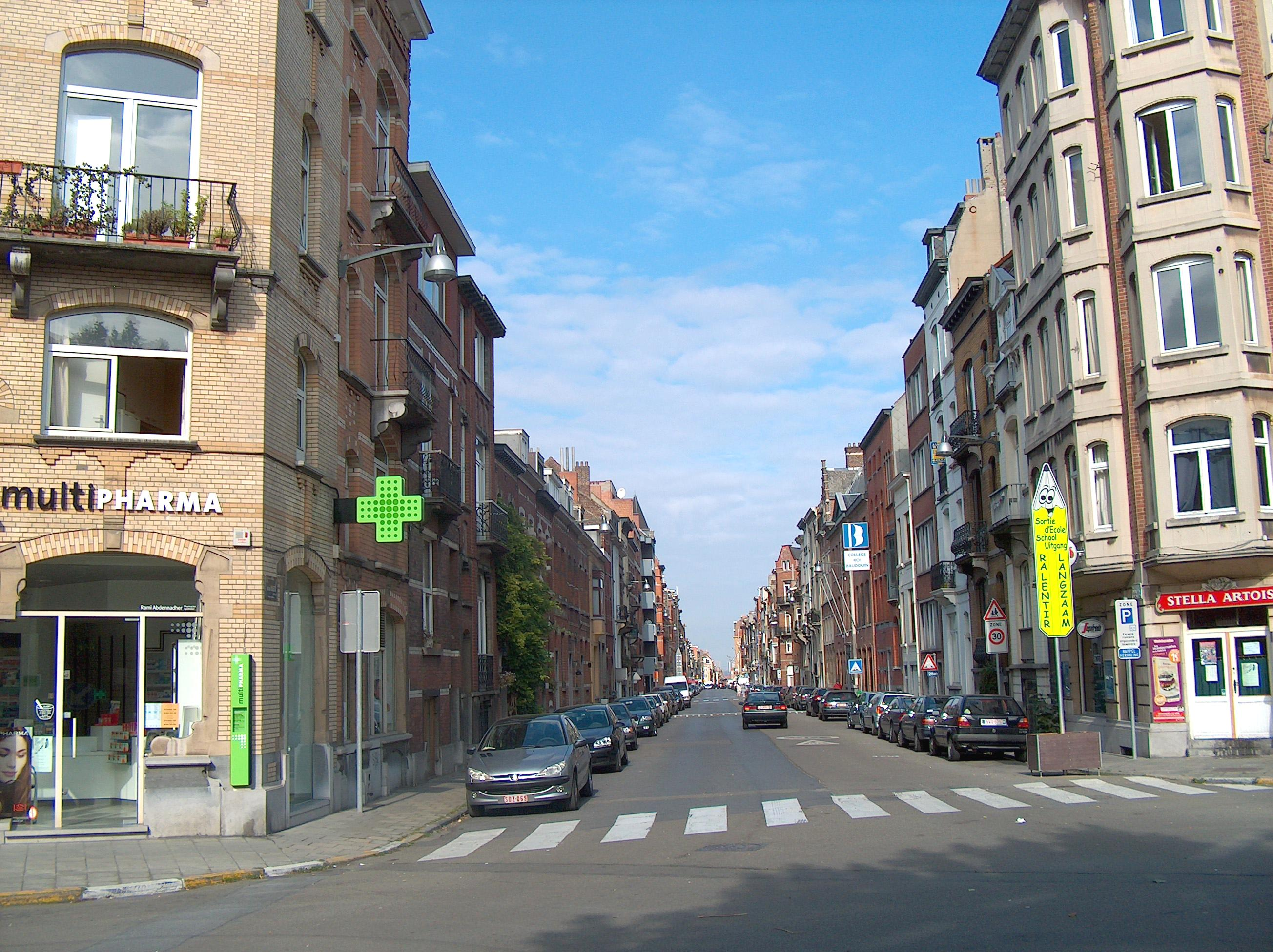 Bruxelles, Schaerbeek, rue Victor Hugo